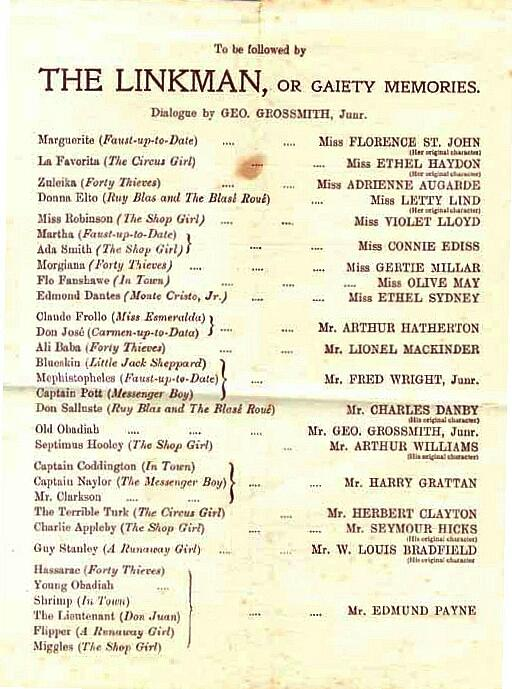 Page two of the programme for the last night at the "Old" Gaiety Theatre, 1903